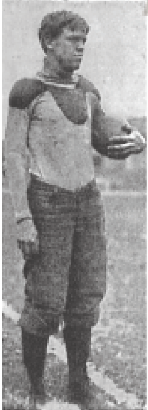 Photograph of W.R. Morley, Columbia